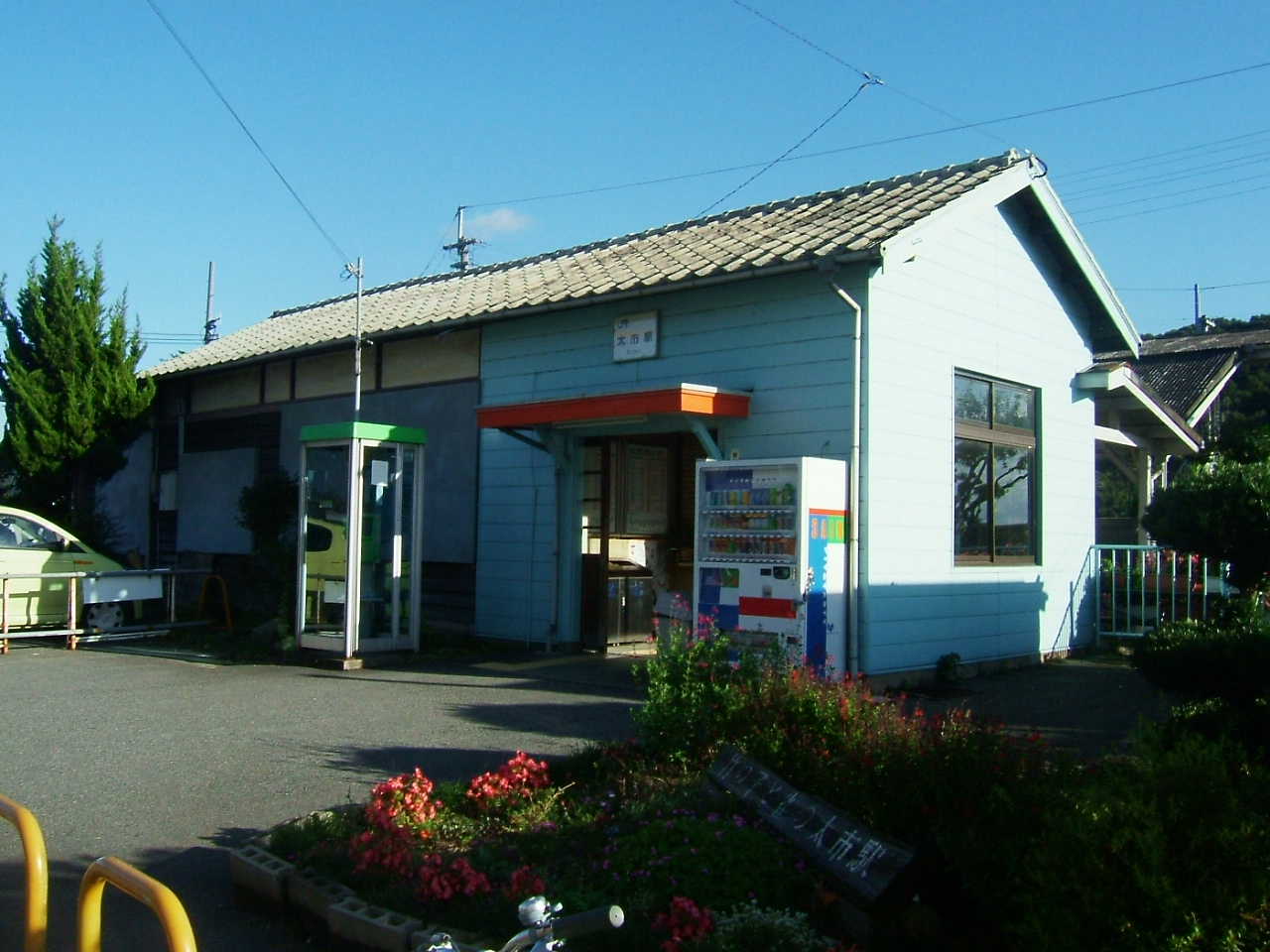 JR Kishin-Line Ooichi-station. 太市駅